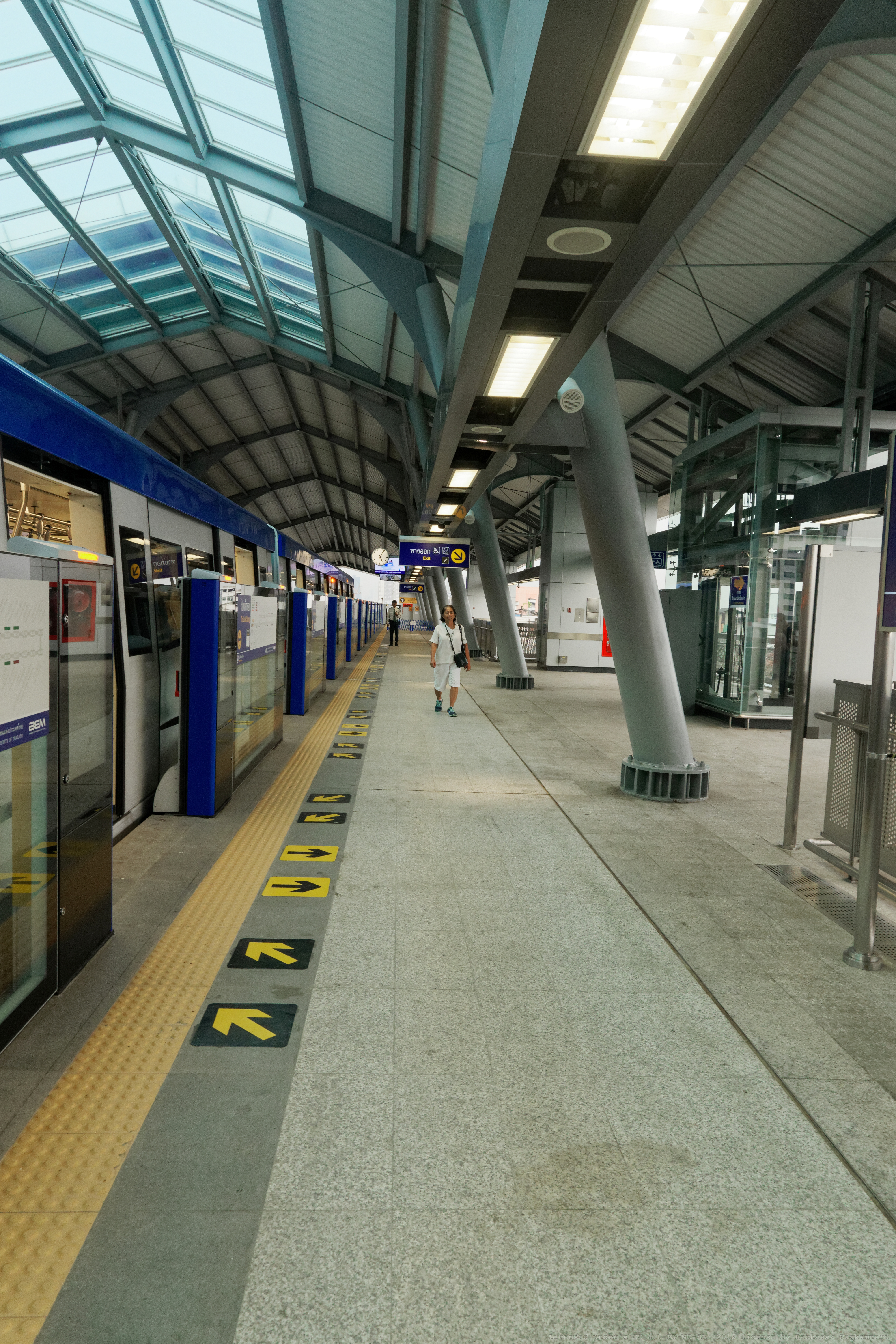 MRT Bangkae station: a platform on Lak Song side